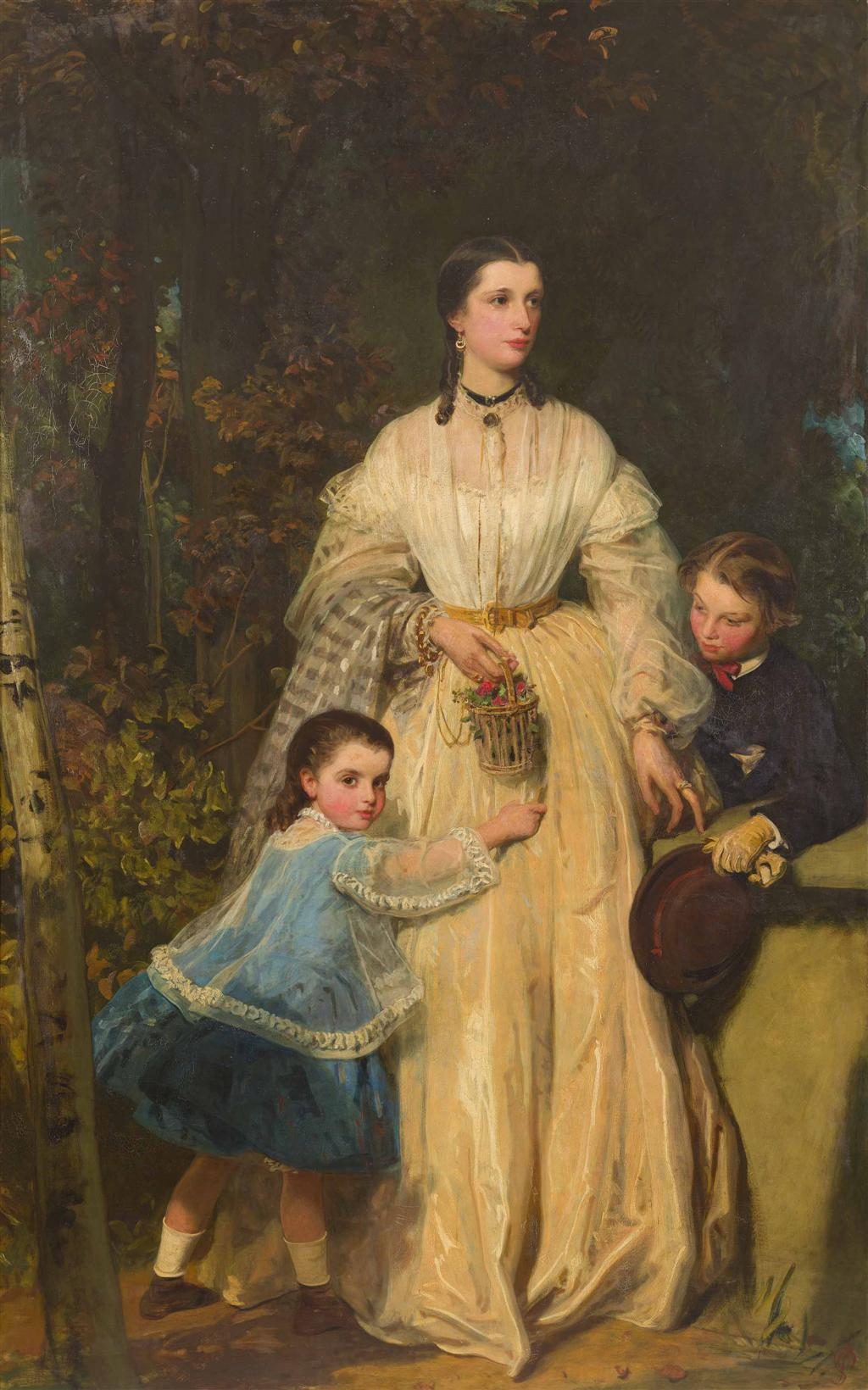 By James Sant : Mary Fothergill and her children Richard and Mary. Signed with a monogram, oil on canvas 237cm x 146cm (93.25in x 57.5in) Estimate £ 6,000-8,000 Note:Mary Fothergill (née Roden of Shropshire) d.1909 married Richard Fothergill M.P, (1822-1903)of Lowbridge House, Kendal Exhibited:Royal Academy 1864 Sold for £13,125 (buyer's premium included) .